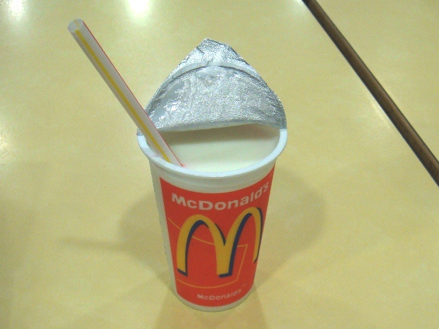 Ayran, a traditional salty yogurt drink in Turkey, McDonald's, Istanbul.